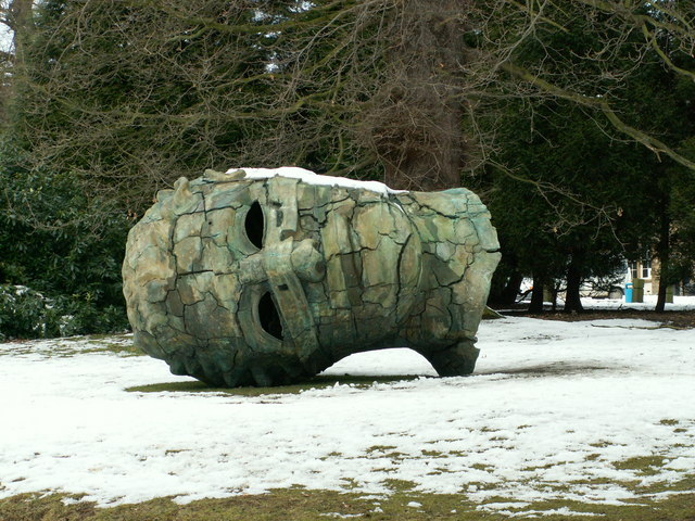 Sculpture by Igor Mitoraj At Yorkshire Sculpture Park, West Bretton. Right hand centre edge of pic can be seen the car park and part of the building that housed the student bar and public toilets. Right of pic is Bretton Hall.